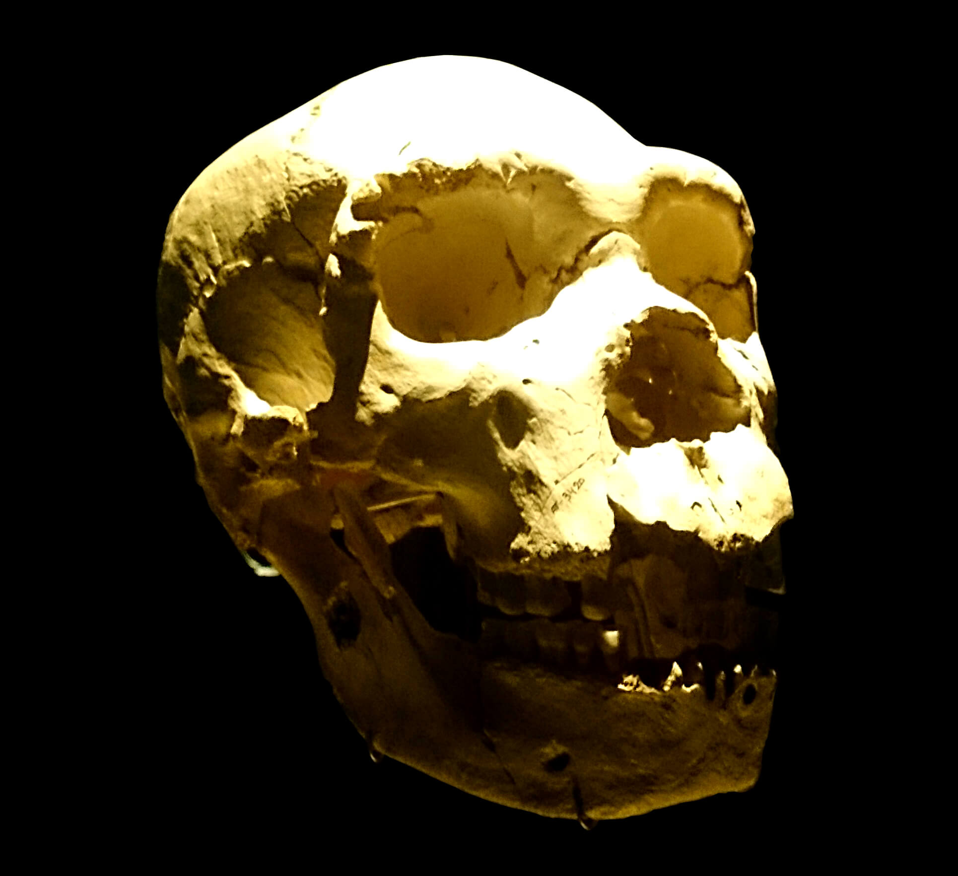 Skull 5 nicknamed 'Miguelón' discovered in the Sima de los Huesos.